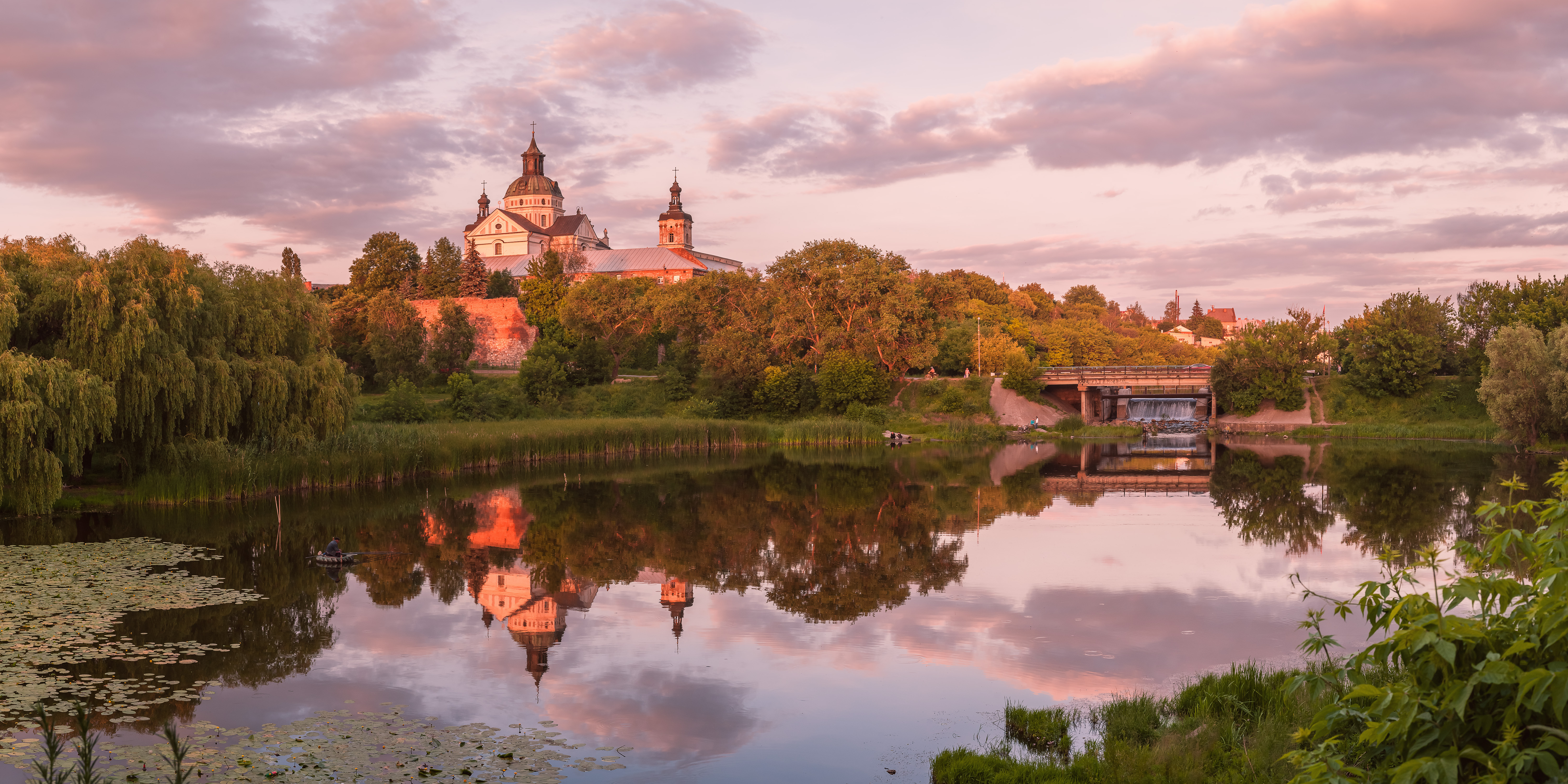 Carmelite Monastery, Berdychiv, Zhytomyr Oblast, Ukraine